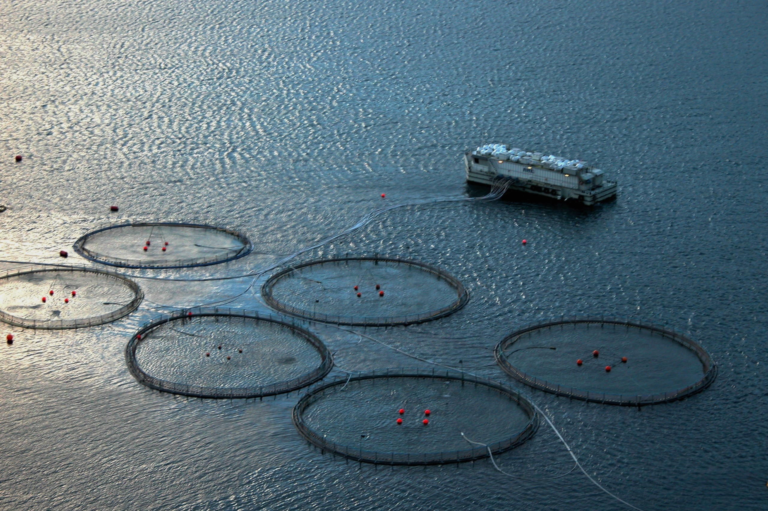 Atlantic salmon fish farm, Vestmanna, Streymoy, Faroe Islands.